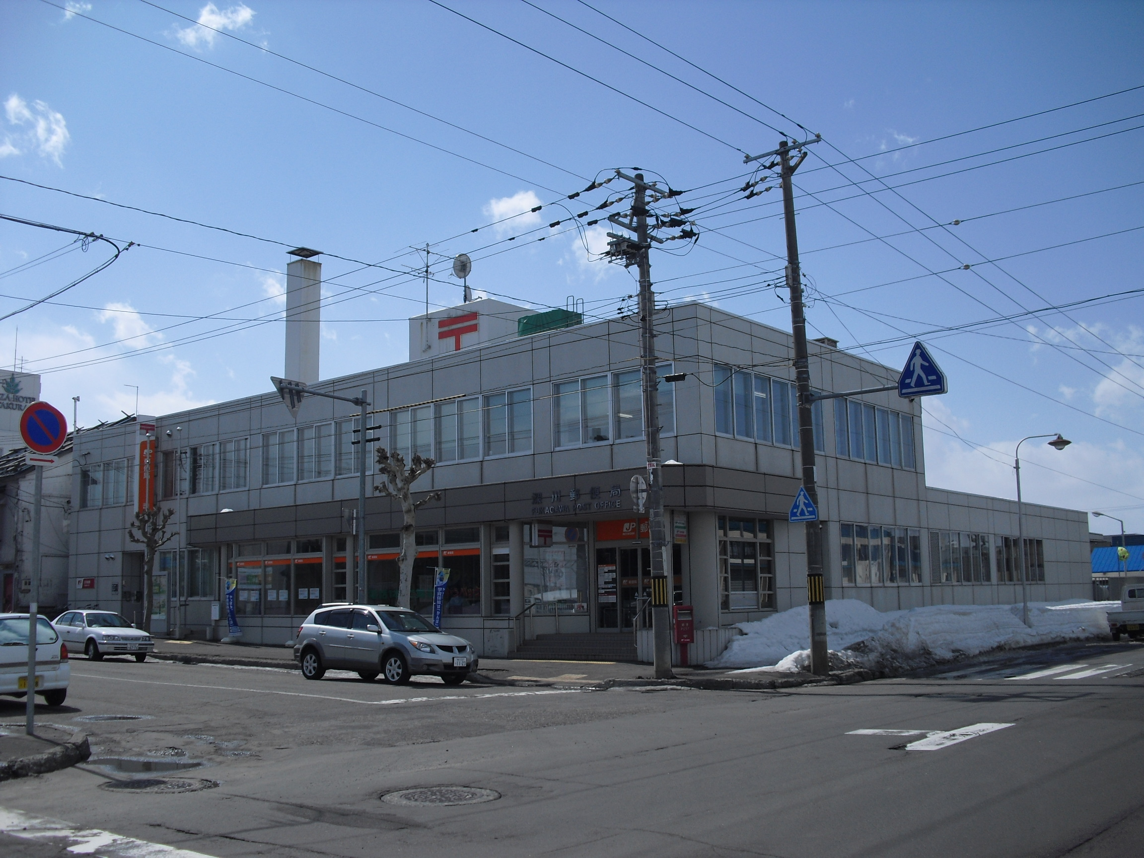 Fukagawa post office